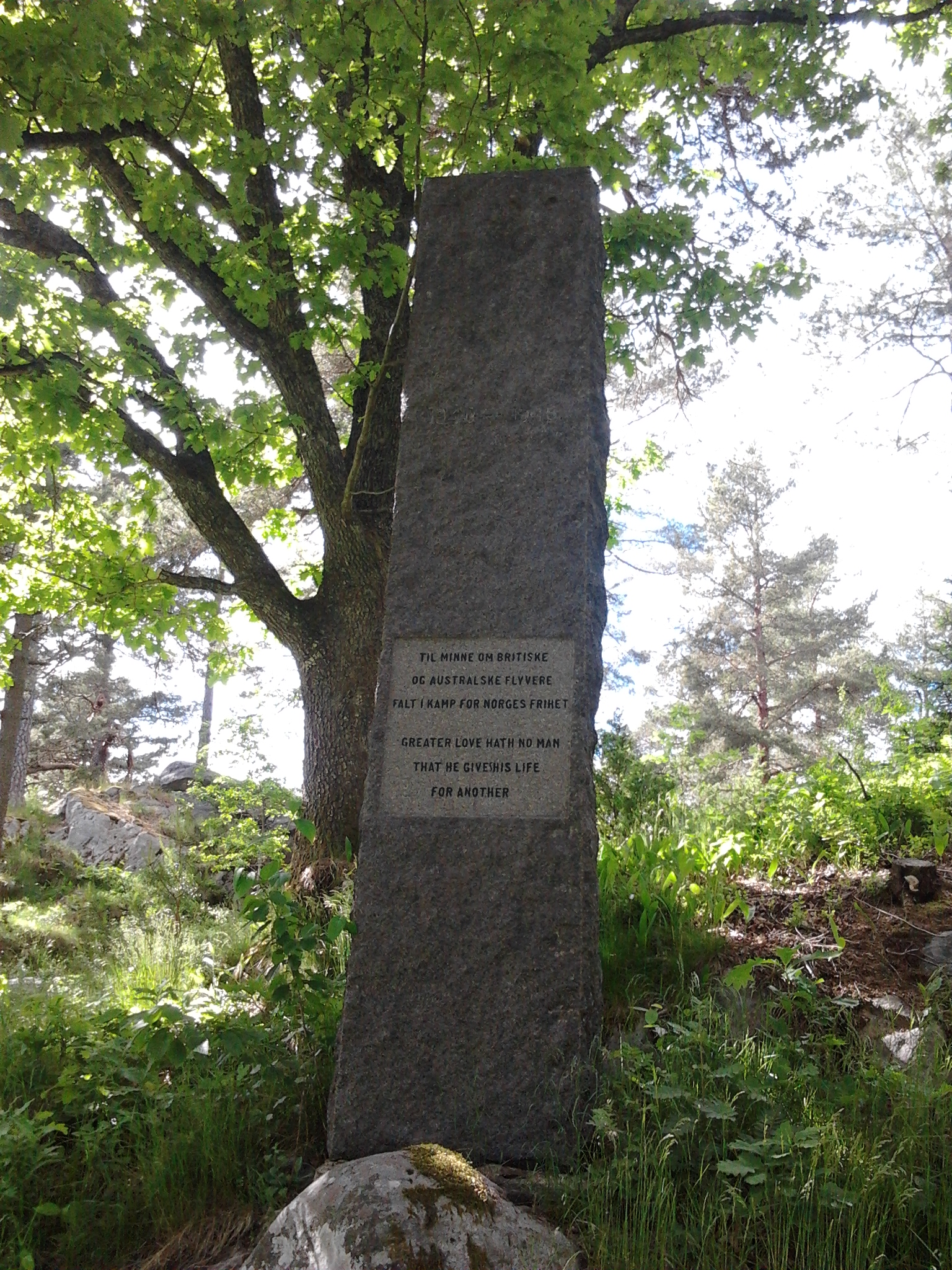 Monument raised to praise WWII Royal Air Force personnel at Arendal Cemetery in Norway for giving their lives to give Norway back it's freedom